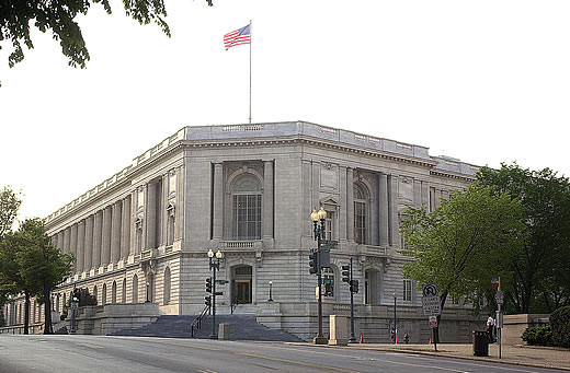 The Cannon House Office Building. Image taken from the public domain Architect of the Capitol website (